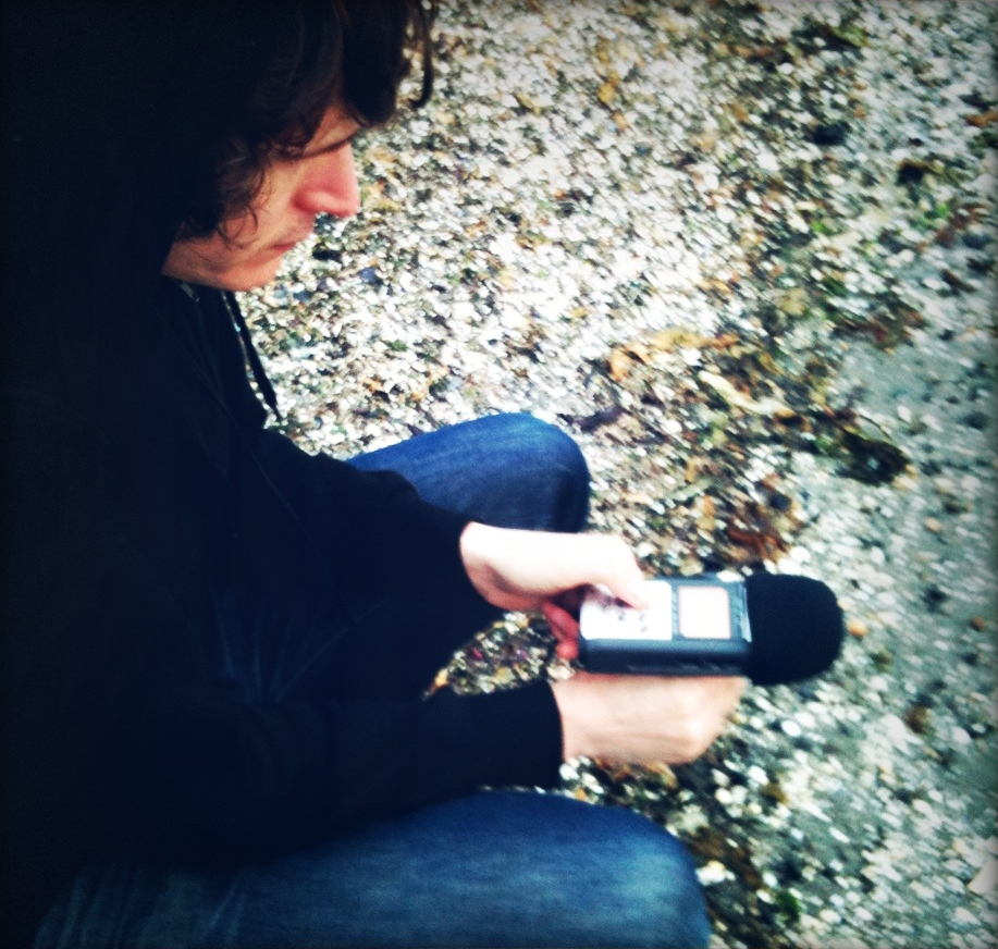 American composer Rafael Anton Irisarri